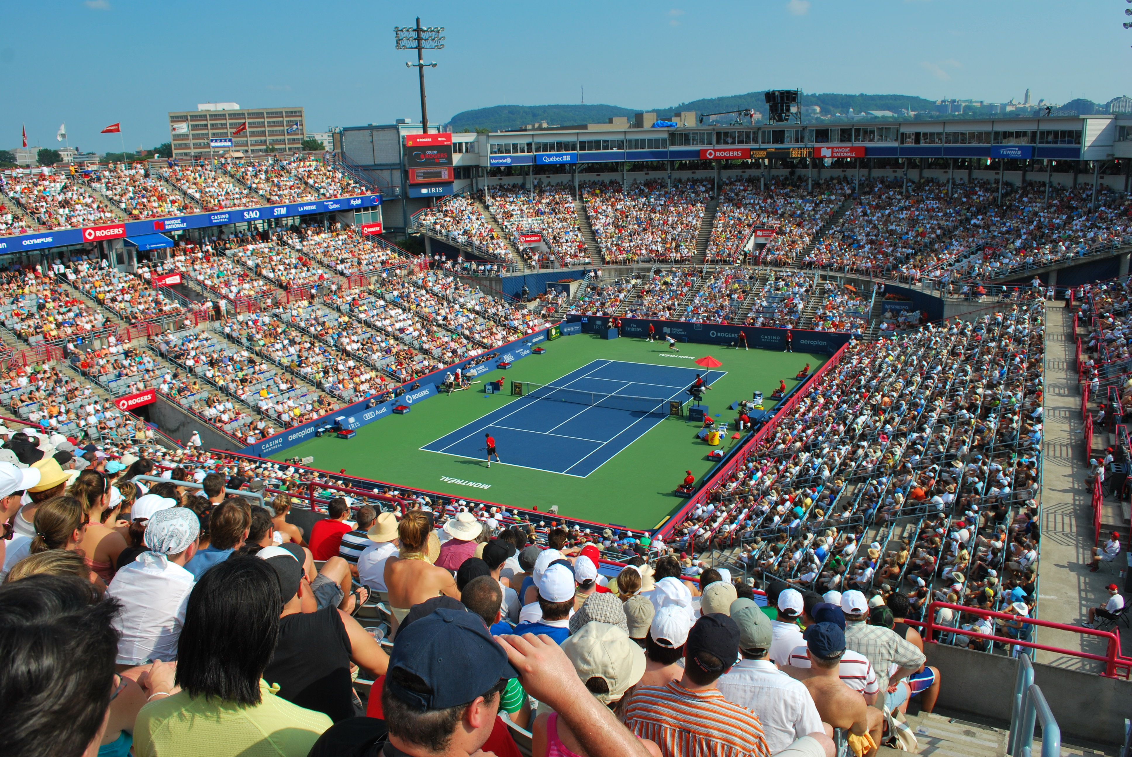 Uniprix Stadium. Rogers Cup - Montreal Aug 15, 2009 Semifinal: Jo-Wilfried Tsonga - Andy Murray (Winner)